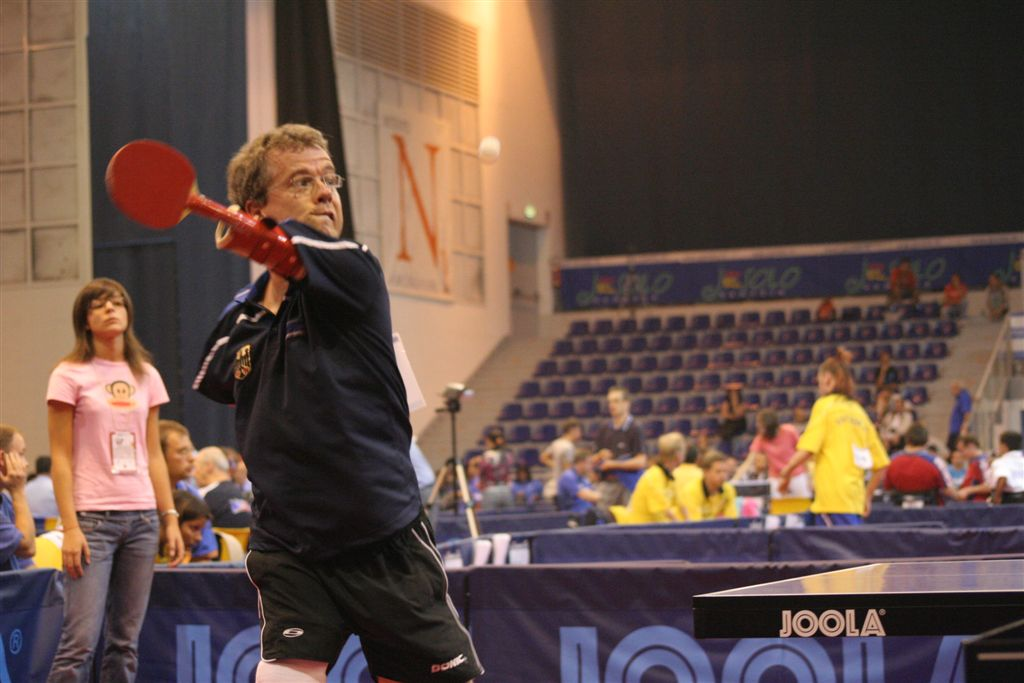 Disabled table tennis player Rainer Schmidt, during the European TT Championship 2005.